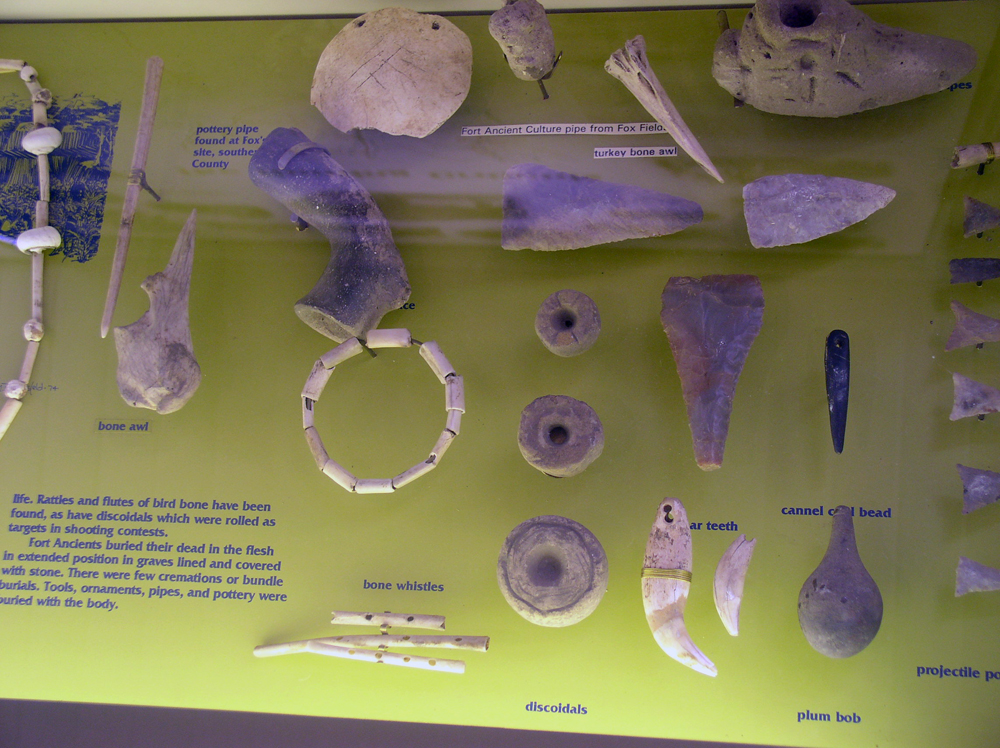 A selection of tools and other artifacts from the Fort Ancient culture on display in a museum in Maysville, Ky. Includes bone awls, stone discoidals used for the gane of chunkey, beads and pendants and ceramic pipes. Some of the artifacts are from the Fox Fields site.